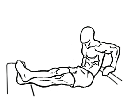 An exercise of triceps.